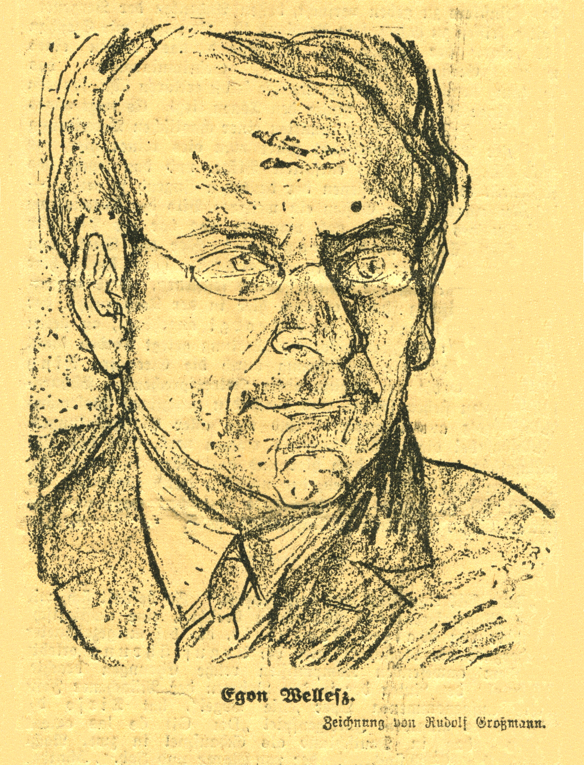 Egon Wellesz 1924, drawing by Rudolf Großmann